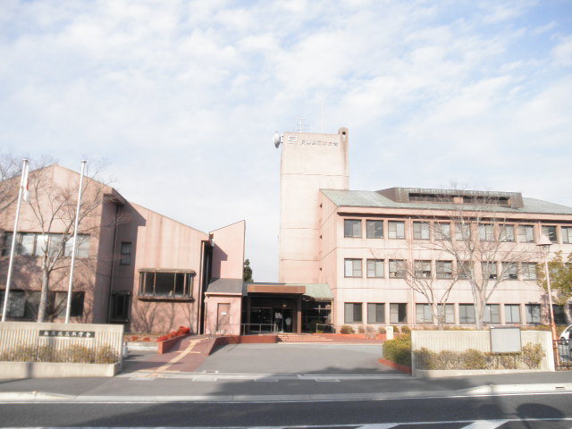 Miki, Hyogo Government building